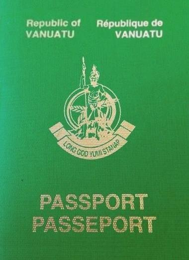 Front cover of a Vanuatuan passport